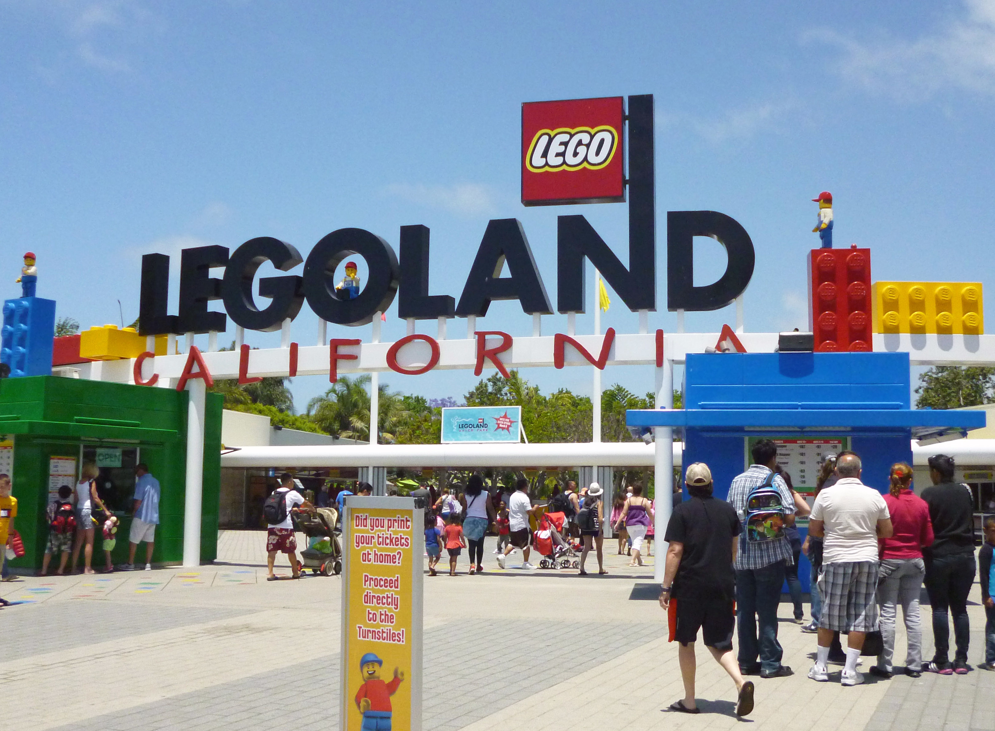 The entrance to the Legoland California theme park in Carlsbad, California. Photographed on June 7, 2014 by user Coolcaesar.